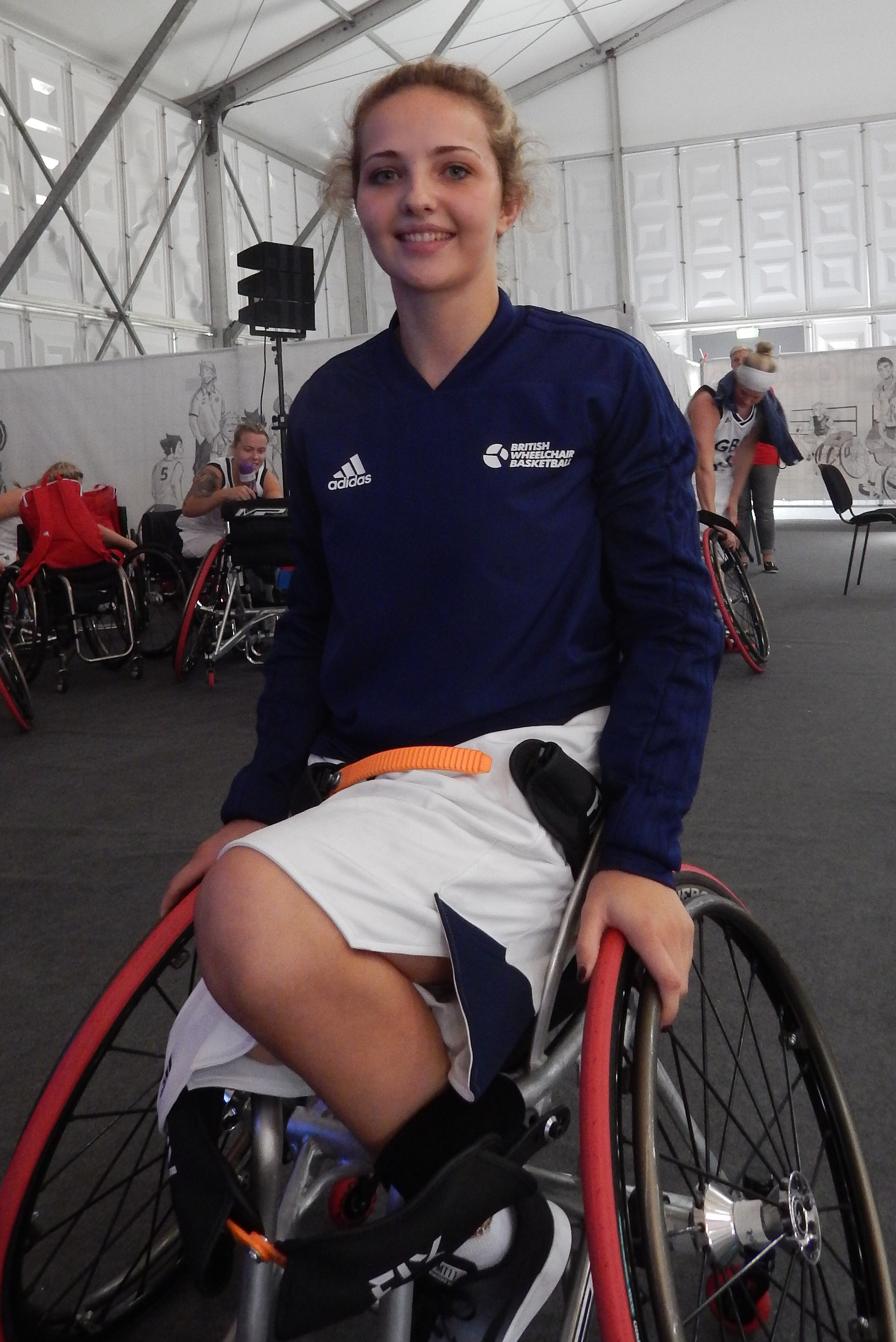 Madeleine Thompson - No. 11 for Team Great Britain